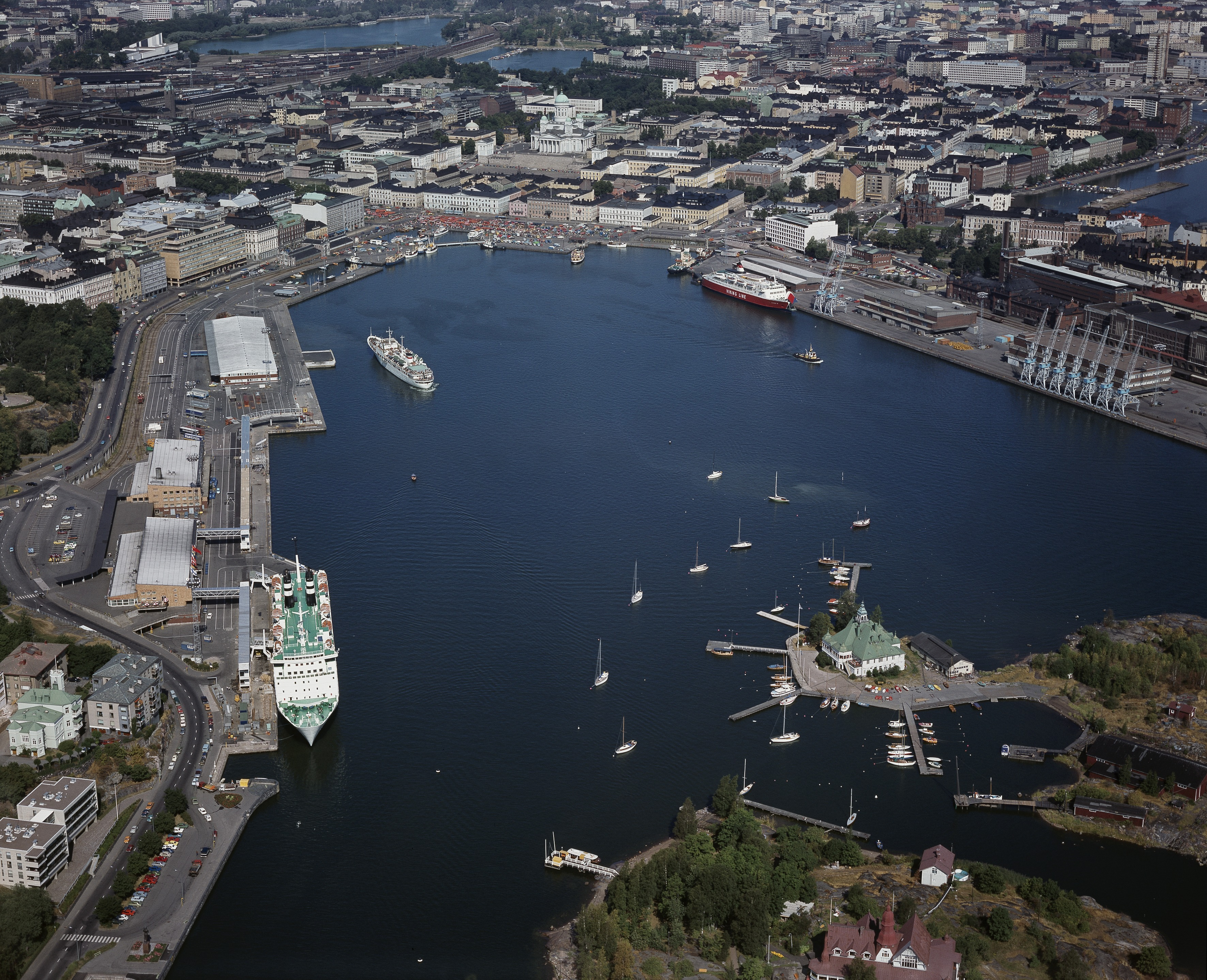 Aerial photograph of the South Harbour in Helsinki, Finland, in 1975, seen from southeast.